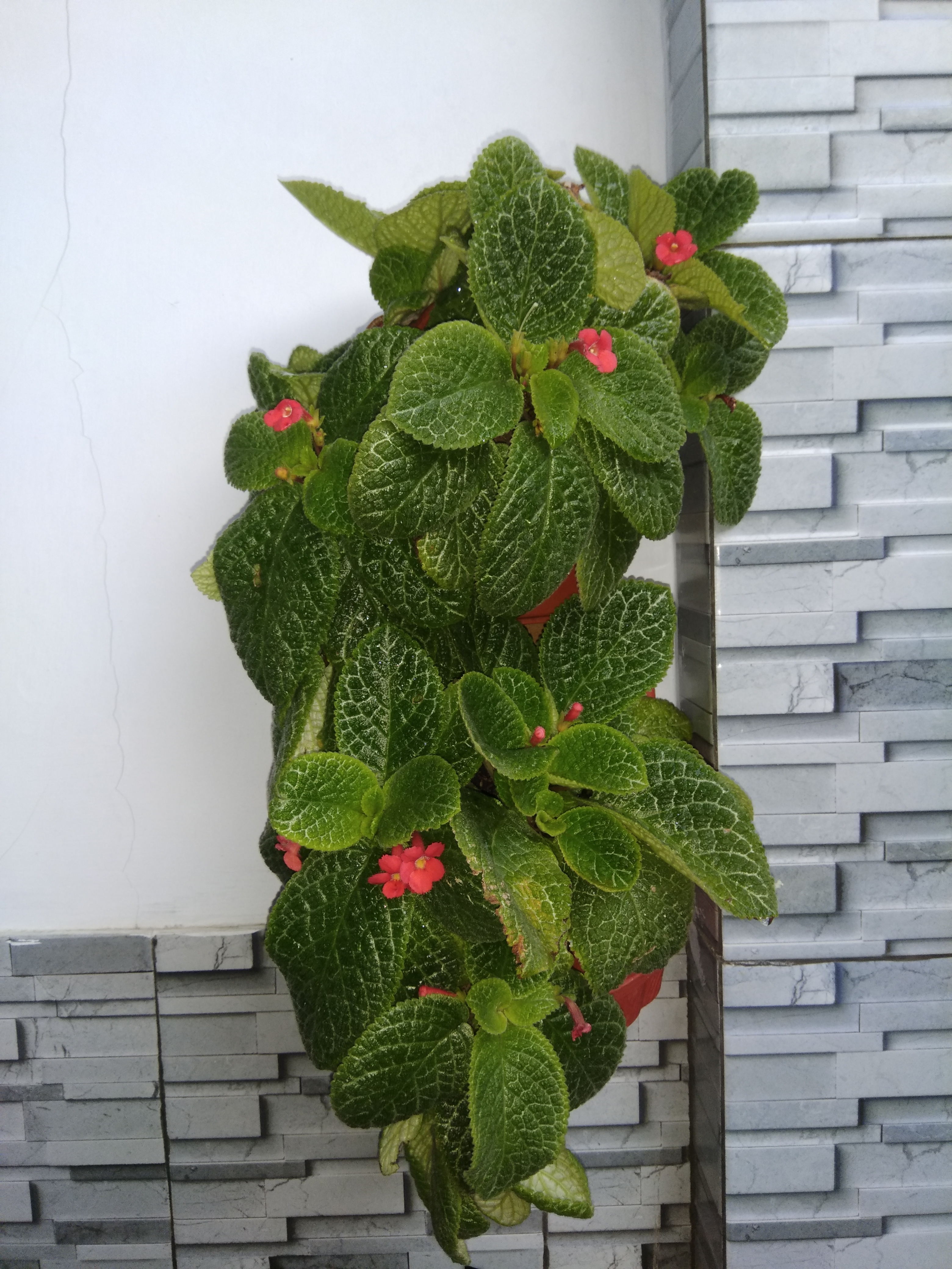 episcia cupreata